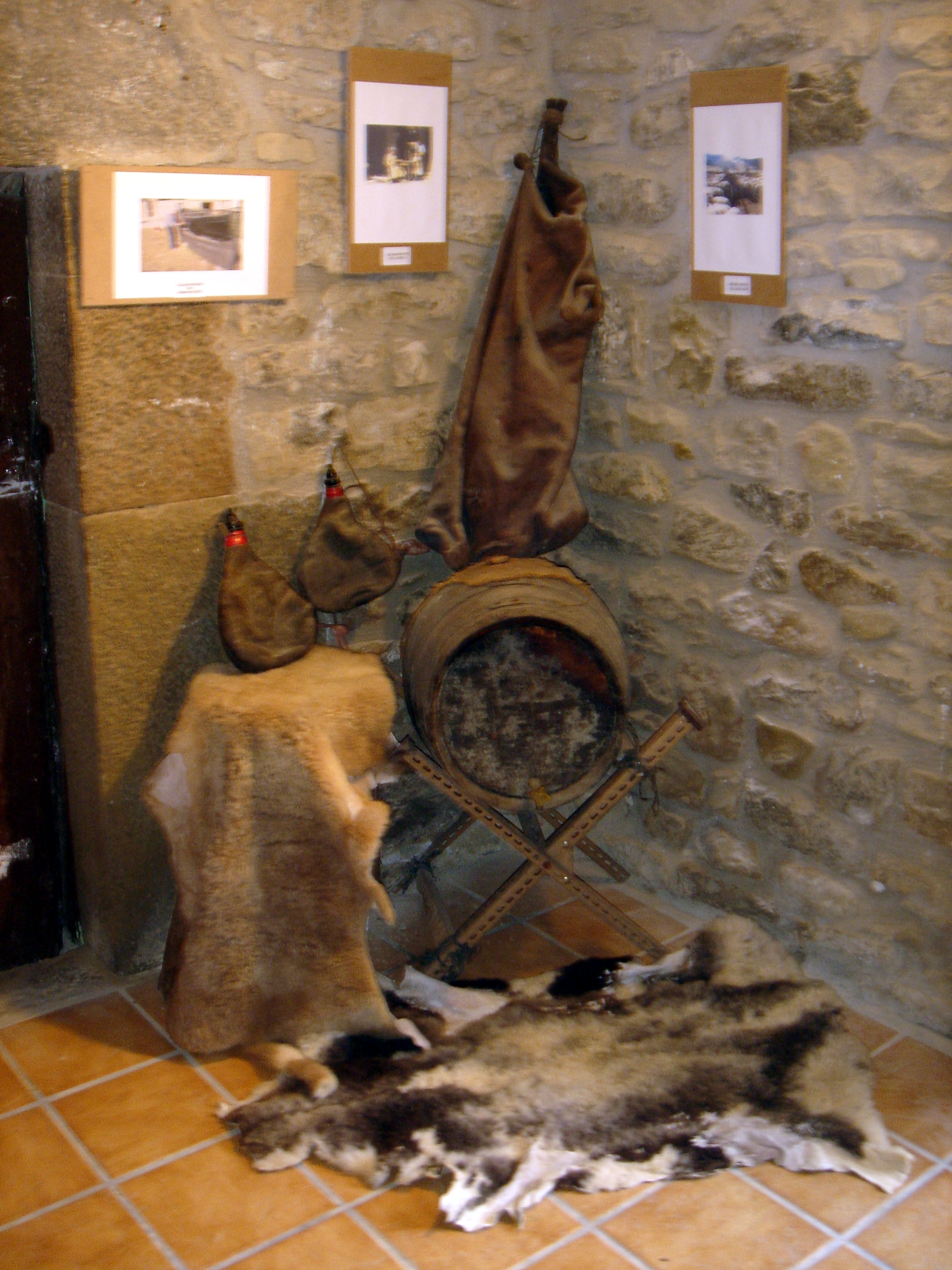 Exhibition in Longás showing the products where pez (a type of resin) was used